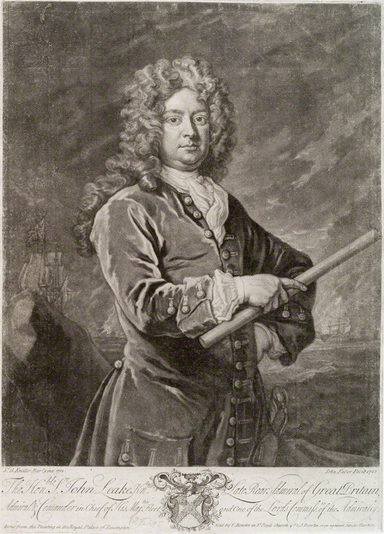 Sir John Leake (1656-1720)